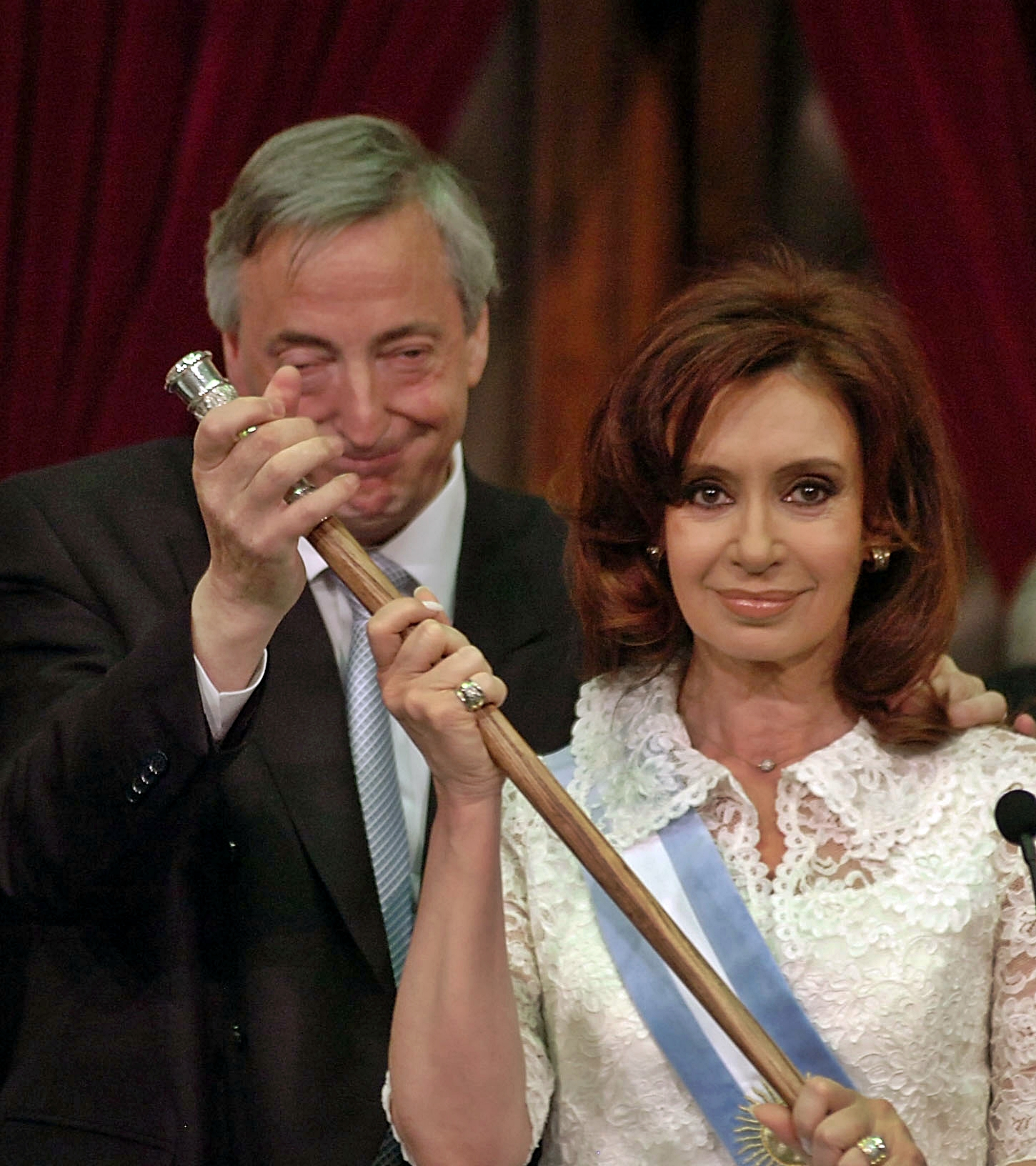 Néstor Kirchner, ending his presidential mandate, pass it to his wife, Cristina Fernández